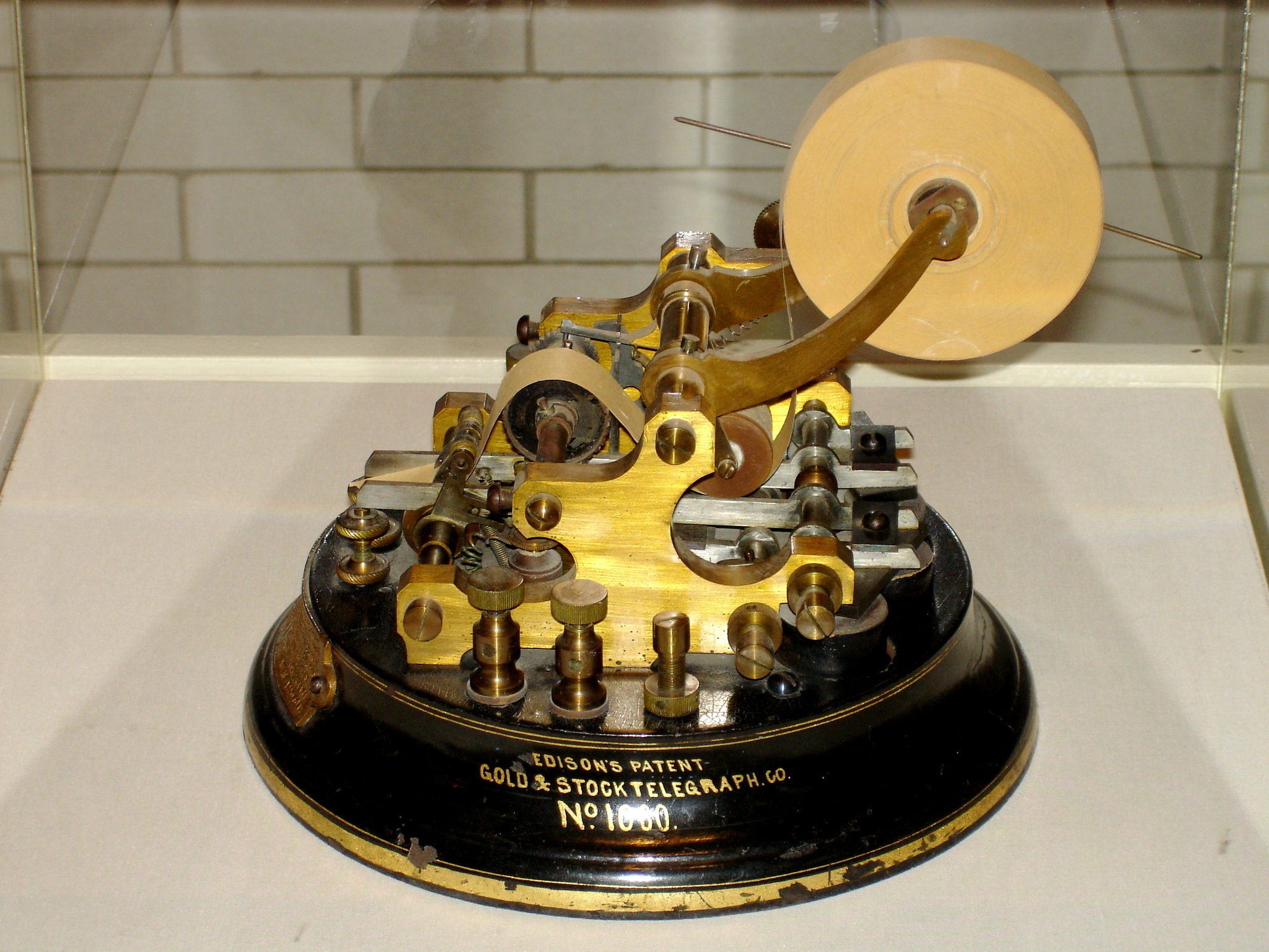 Thomas Edison Gold & Stock Telegraph, Henry Ford Museum, Dearborn, MI